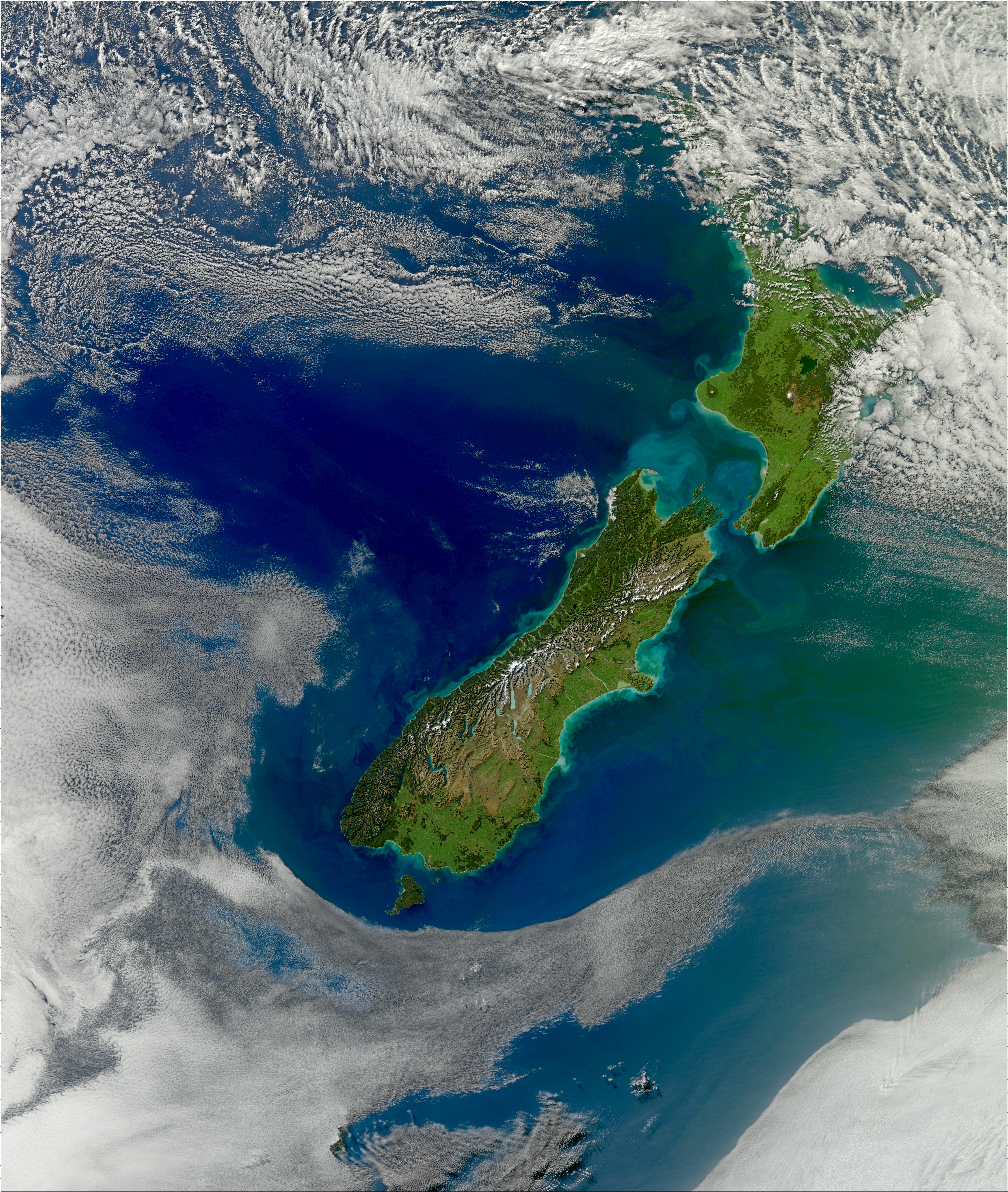 View of sediment from New Zealand flowing in the Pacific Ocean. The volume of sediment in the water hints at rough seas. Distinctive plumes arise from pulsing rivers, while the halo of turquoise around both islands is likely sediment swept up to the ocean surface by powerful waves. The plumes fan out and fade from tan to green and blue with water depth and distance from the shore. The Cook Strait, the narrow strip of water separating the North and South Islands of New Zealand, has a reputation for being among the world’s roughest stretches of water. The islands lie within the “Roaring Forties,” a belt of winds that circles the globe around 40 degrees south. The westerlies hit the islands side on and run into the mountain ranges. The Cook Strait is the only opening for the winds, so the channel becomes something of a wind tunnel. Strong winds produce high waves, and they erode the shore as shown in the image.